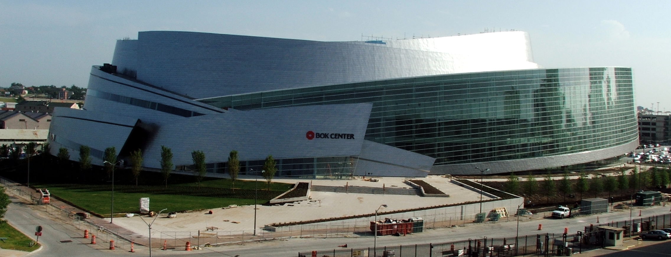 View of the BOK Center taken 07/26/2008 from the top floor of the Tulsa Convention Center Parkade